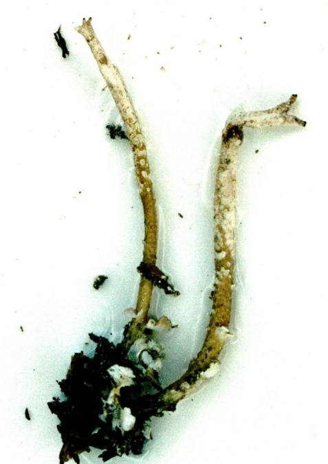 Cladonia rei Schaerer, 1823 Photograph of a herbarium specimen. This specimen of Cladonia rei was growing on soil at Milbridge Cemetery in Milbridge, Washington County, Maine, USA (Lat. 44o31.353' N, Long. 67o53.787' W). Collected by E.C. Uebel, identified by Dr. David H.S. Richardson (No. U-119, 12 Jun 2001)